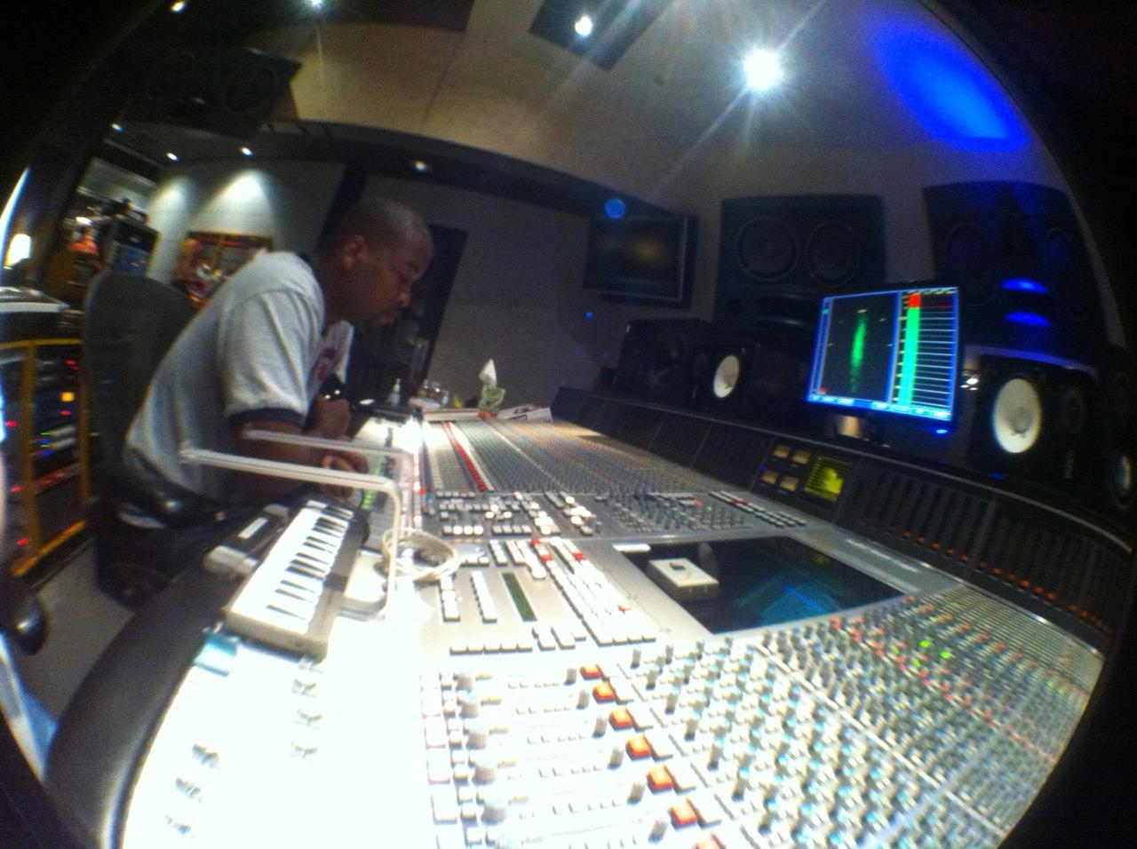 Keith Harris during the recording session at the studio